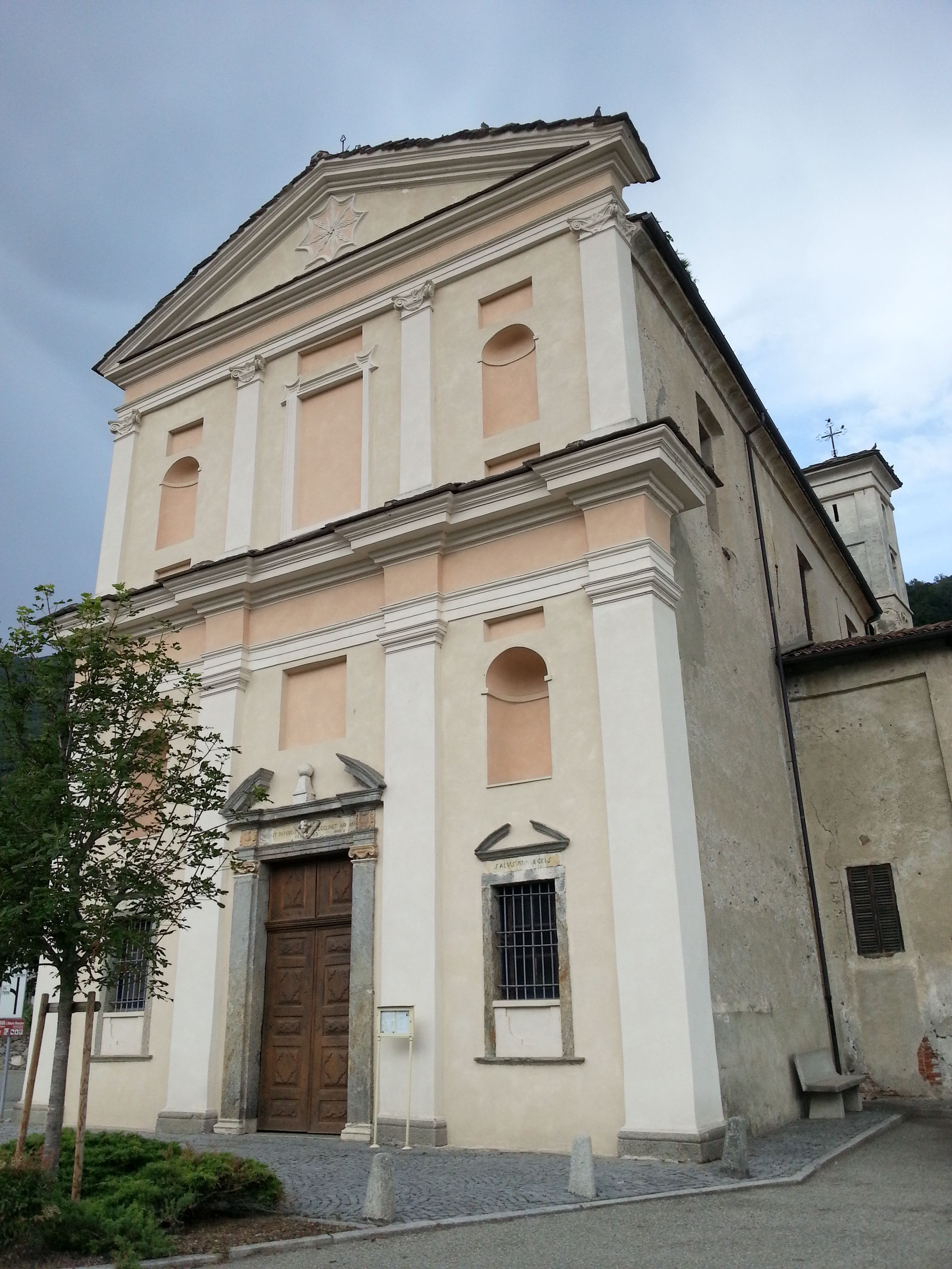 St German church in San Germano (Borgofranco d'Ivrea), Northern Italy